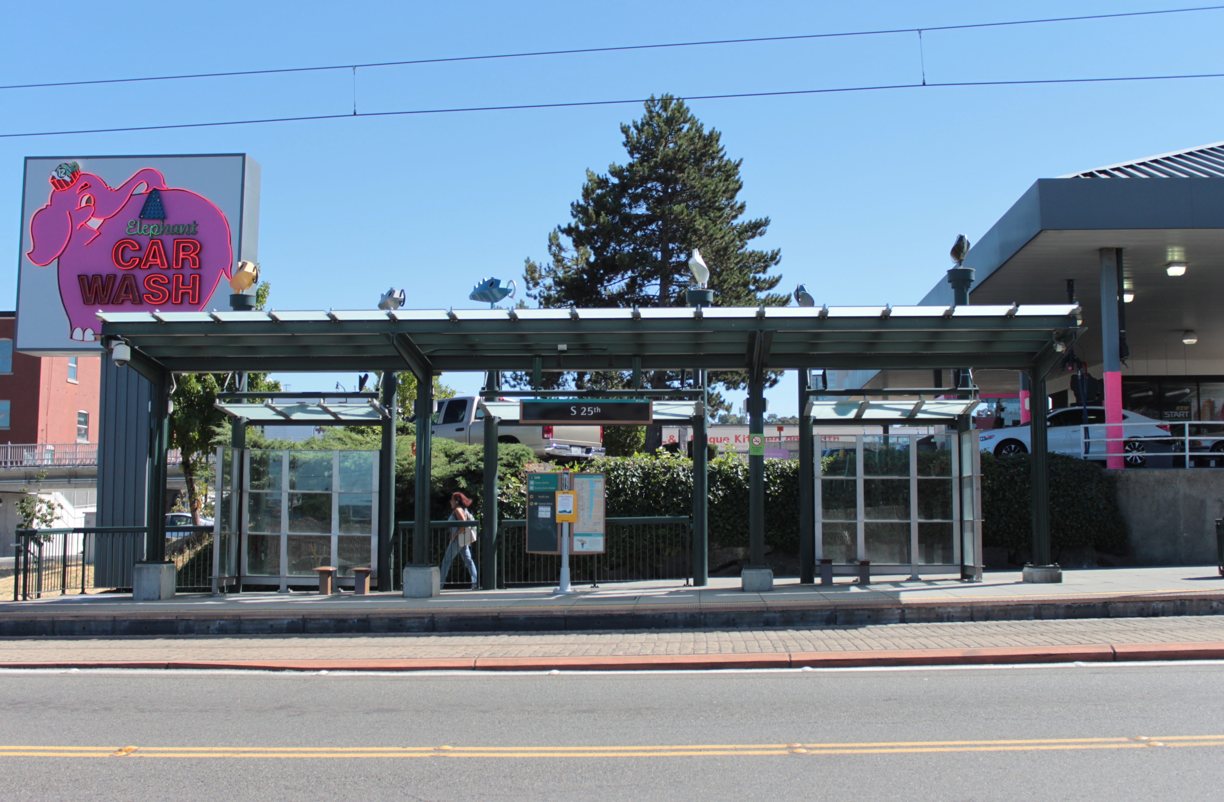 The platform at South 25th Street Station, part of the Tacoma Link light rail line in Tacoma.